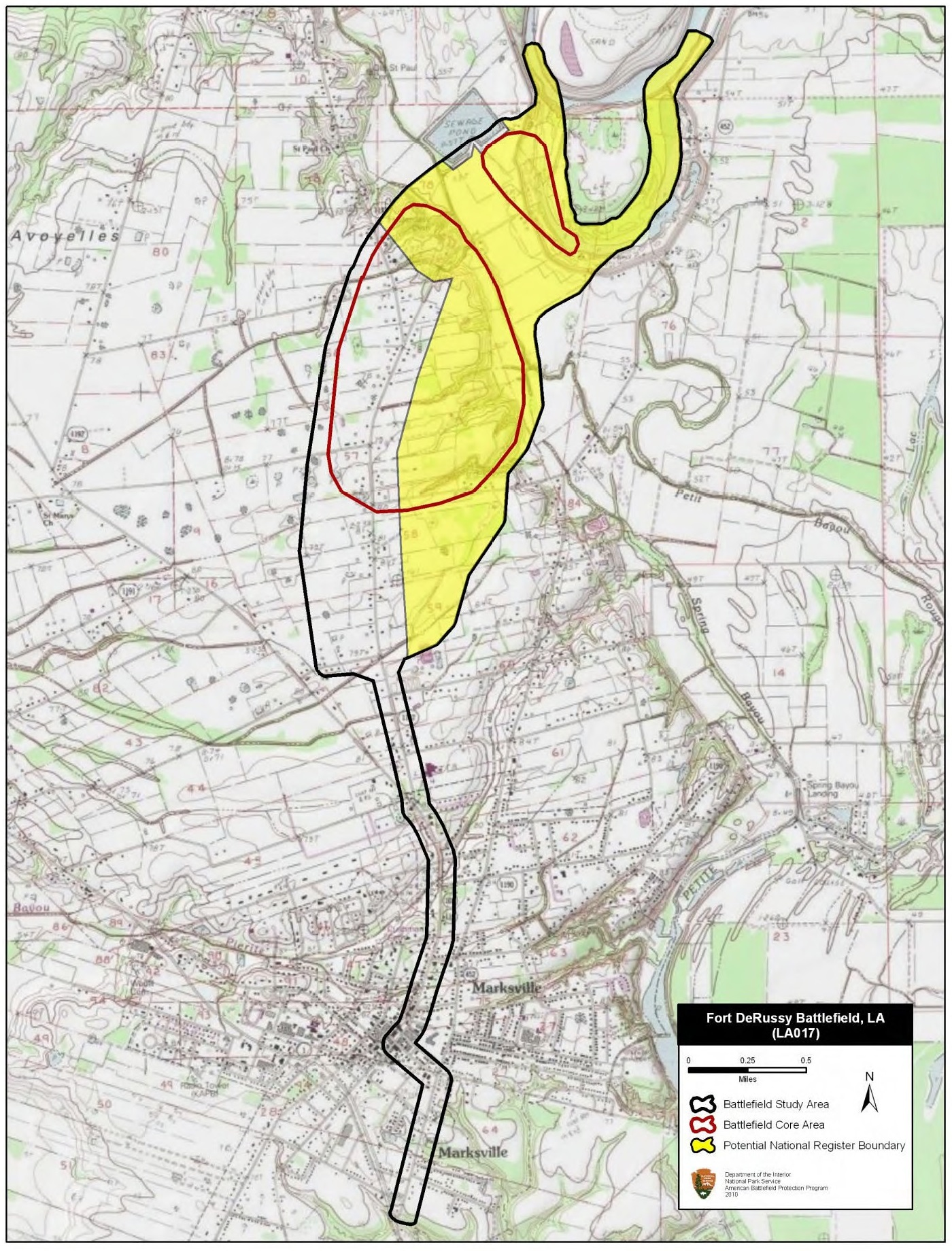 Map of battlefield core and study areas. The Study Area was revised to include the Federal advance from Hamburg directly against Fort DeRussy — the opening land action of the Red River Campaign — and the historic curve of the Red River. The Core Area was adjusted to represent the range of opposing artillery during the battle and the field of fire from Federal naval vessels during their attack against the fort.